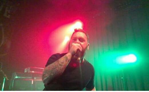 Ion Dissonance's concert photographed in Laval, Quebec, Canada at Scène 1425.